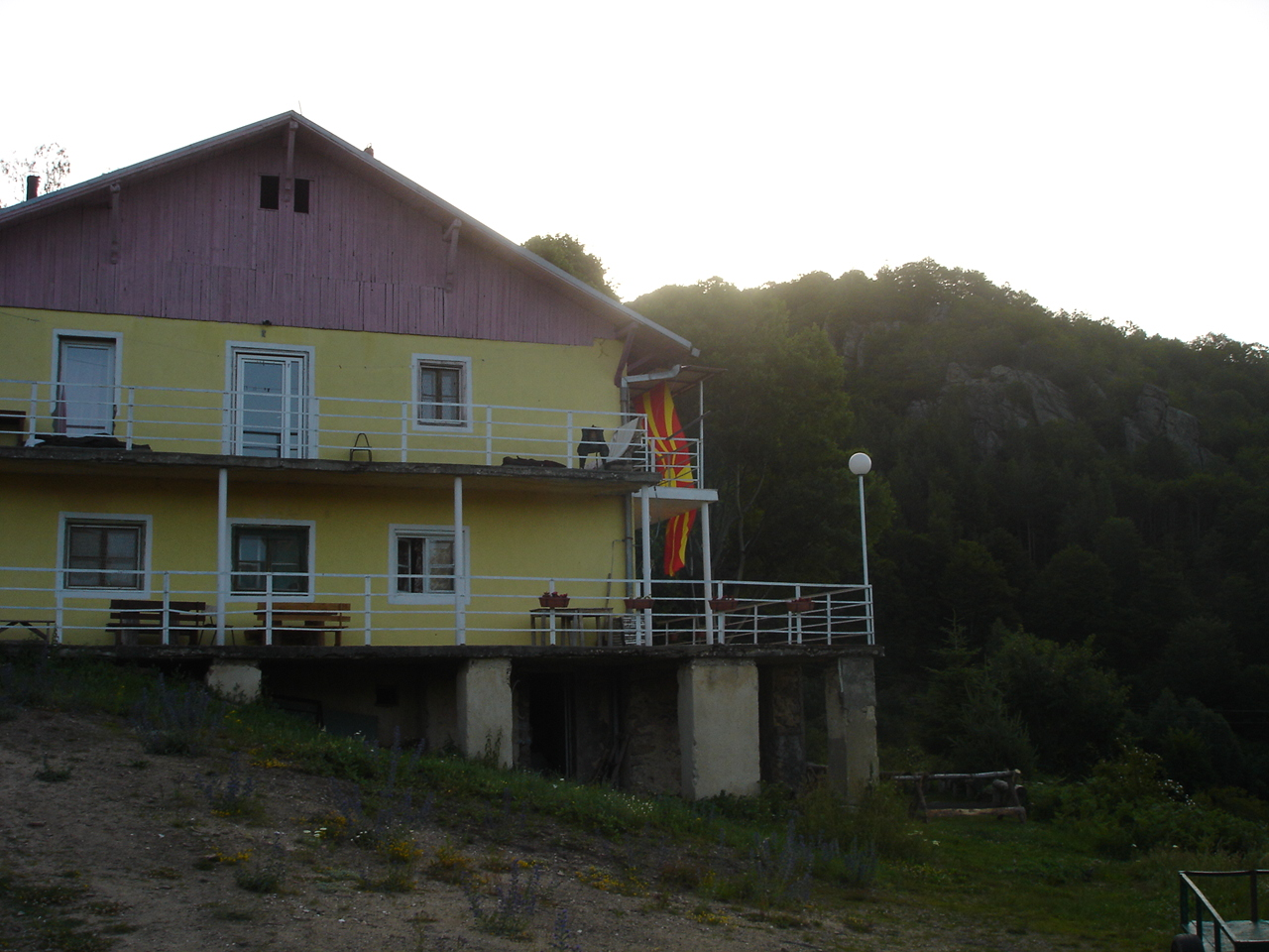 Mountain hut Karadzica, Macedonia